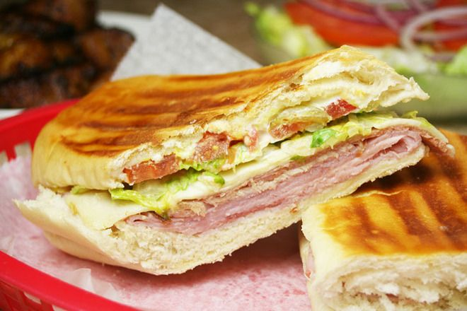 Typical Cuban sandwich (Cuban mix) from Key West